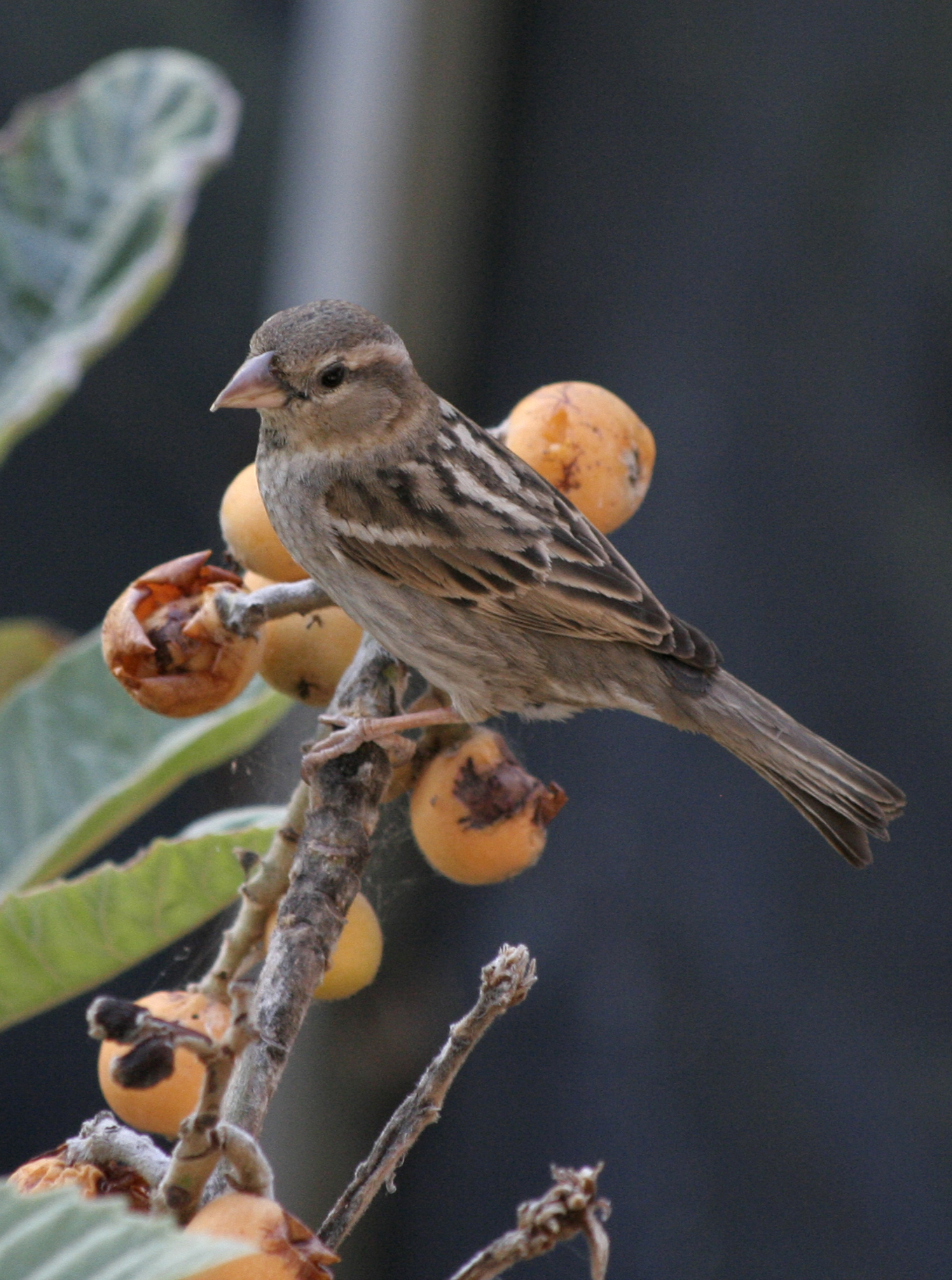 Female Spanish Sparrow in Sorso, Sardinia, Italy